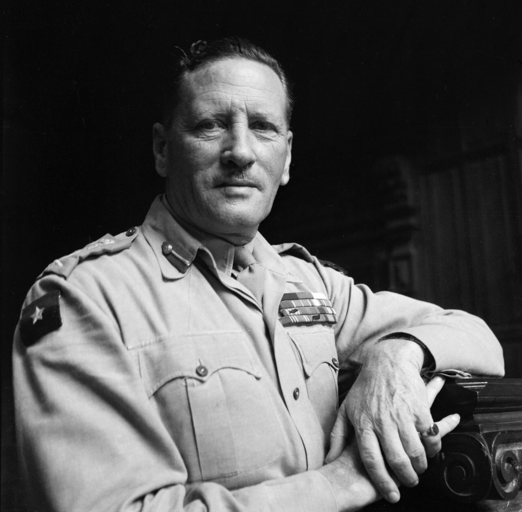 Cecil Beaton Photographs- Political and Military Personalities Military Personalities: Half length portrait of General Sir Claude Auchinleck, Commander in Chief of the Indian Army.